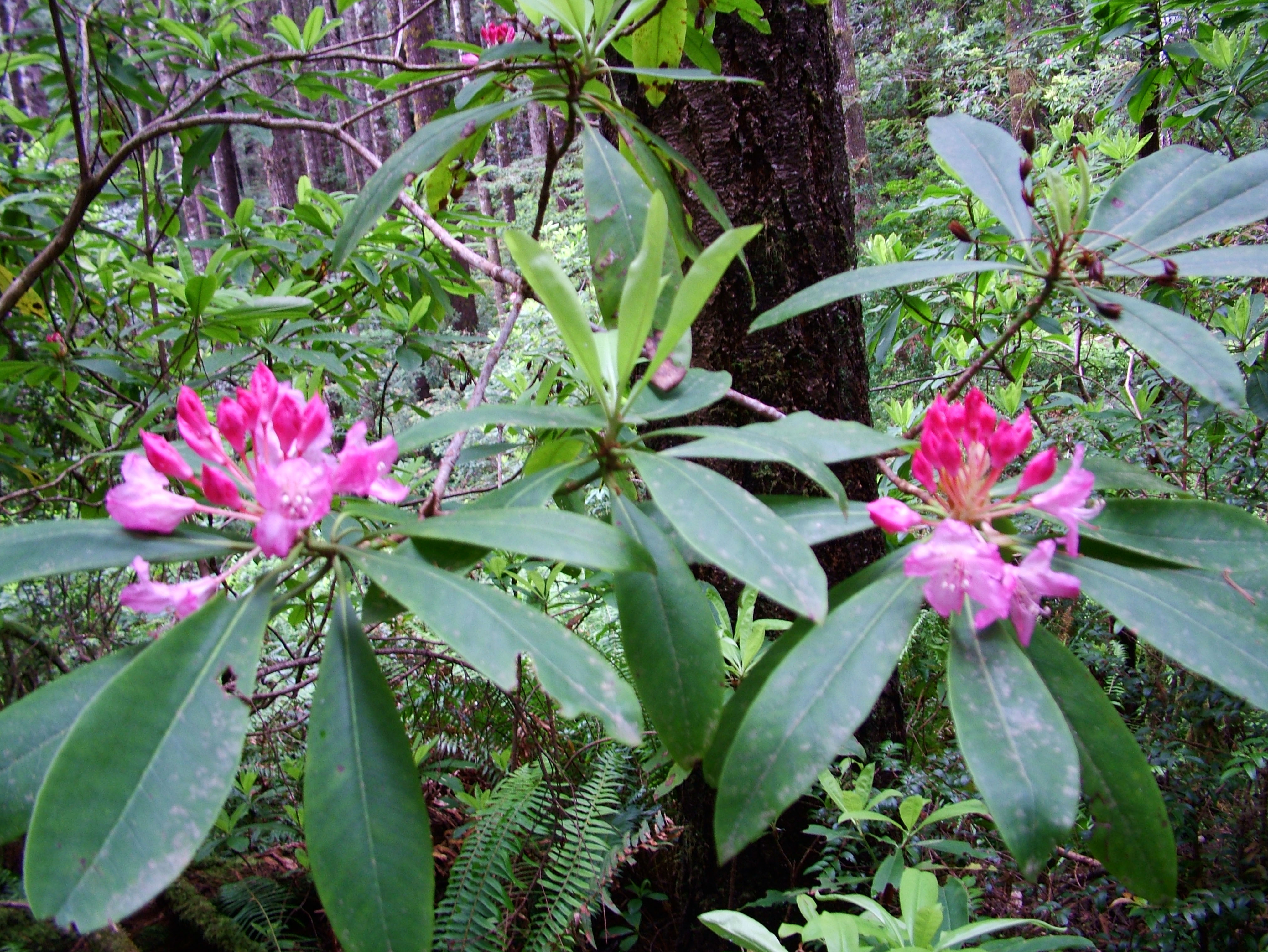 Pacific rhododendron (Rhododendron macrophyllum) at Redwood National and State Parks, California, USA.